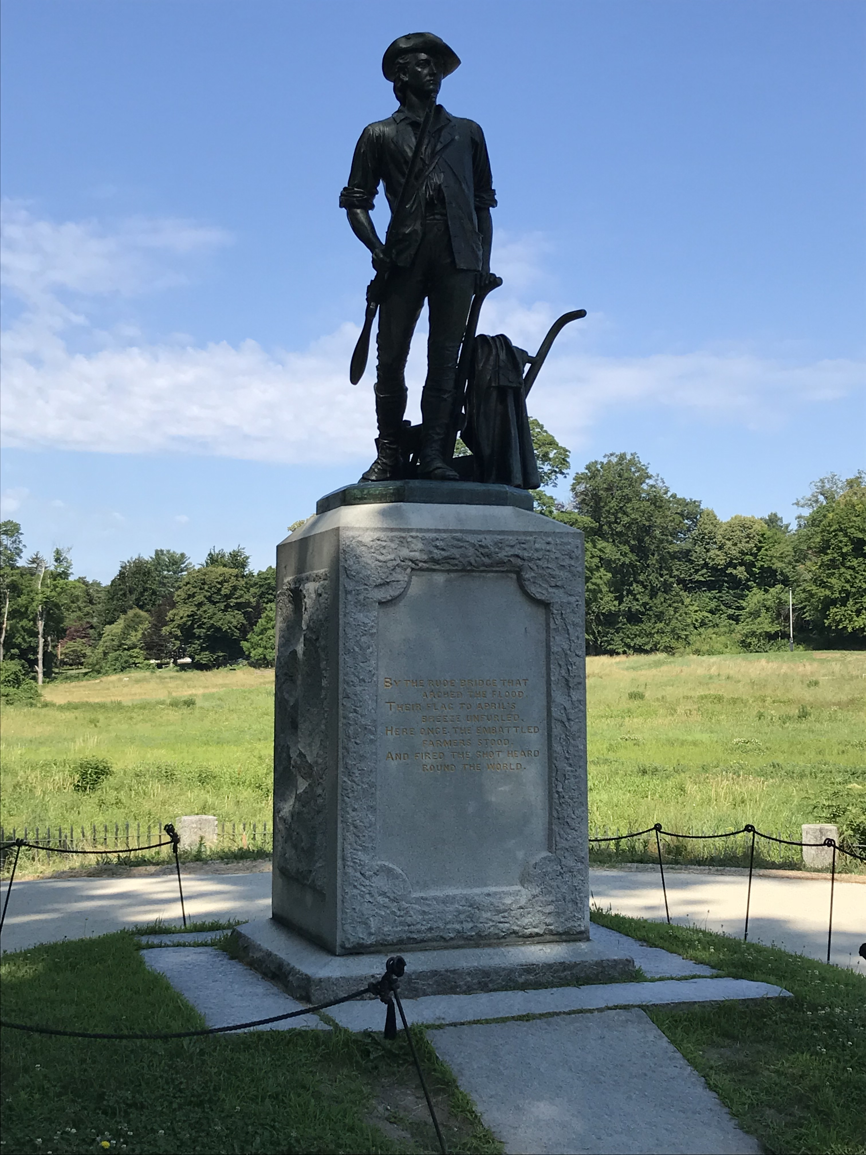 The Minute Man Statue is located in the Minute Man National Historical Park. It is situated near the North Bridge, were "the shot heard around the world" was fired. Daniel Chester French constructed the statue for the centennial of the Battle of Lexington and Concord. Part of Ralph Waldo Emerson's Concord Hymn is inscribed on the base for the statue. The statue is meant to convey the true Minute Man to the visitors who come and see it. It shows a farmer next to his plow, equipped with his weaponry in order to serve at a moments notice.